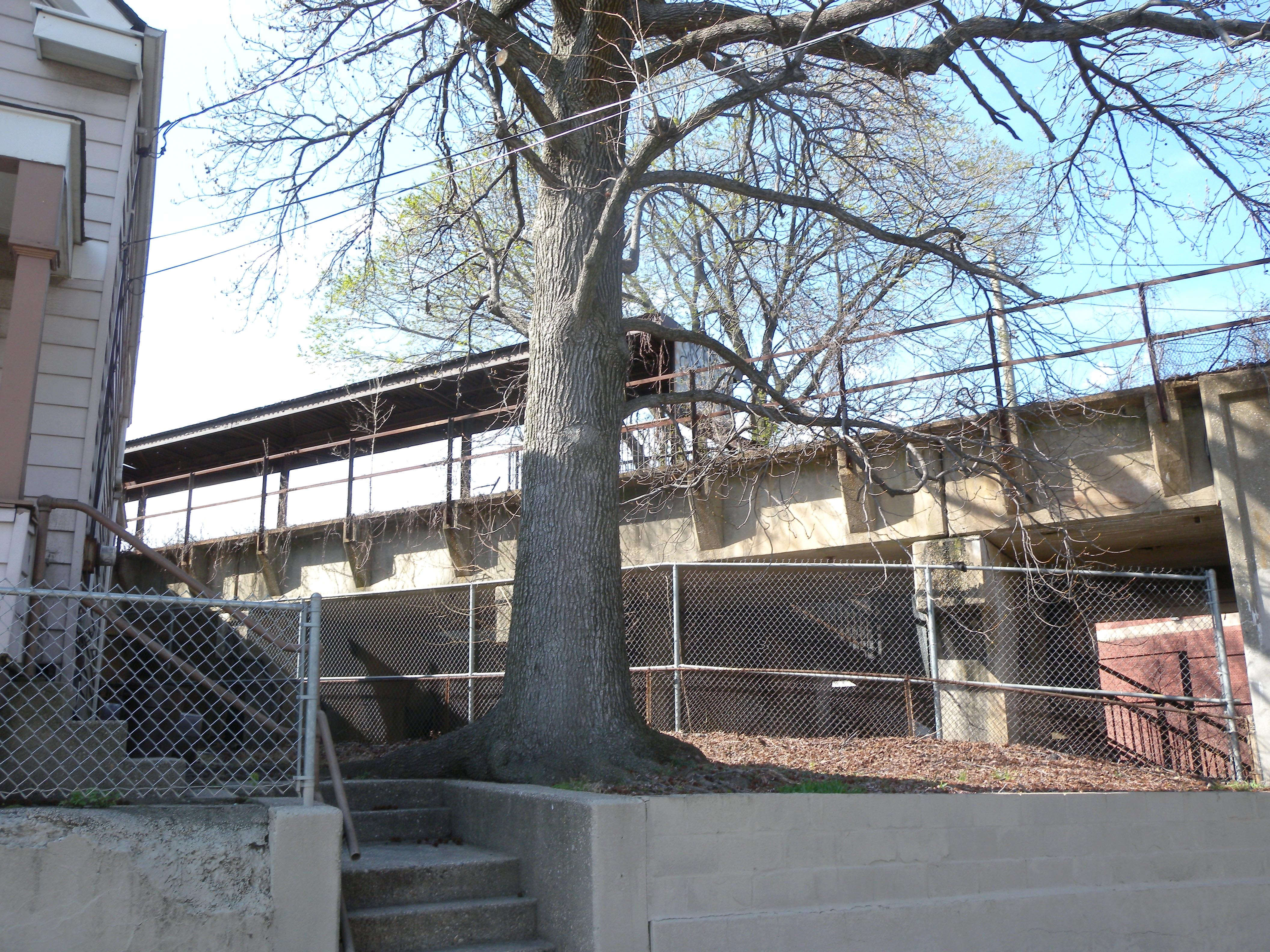 Looking northwest from Park Avenue at Port Richmond station on a sunny midday.